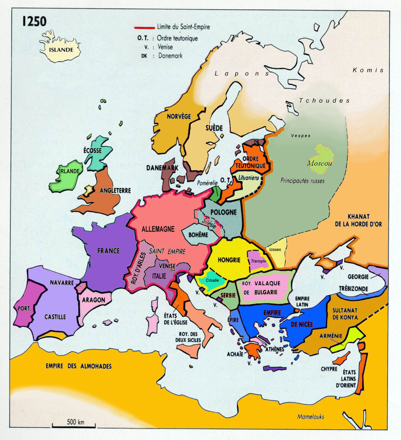 Historical map of Europe, year 1250